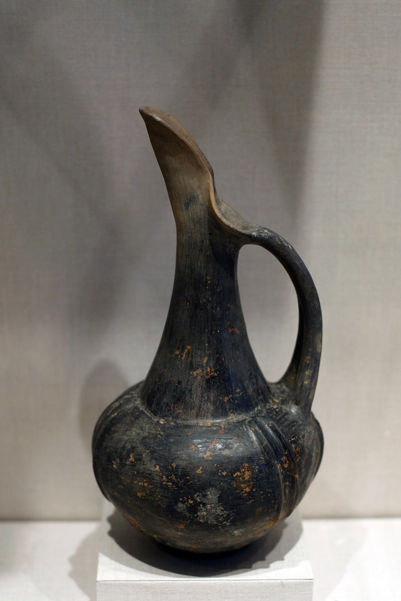 Metropolitan Museum of Art # 91.1.454 Photographer: Katie Chao